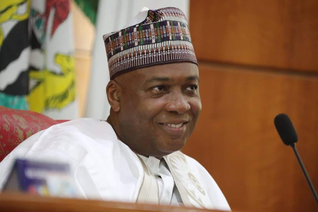 Picture of the Senate President of the 8th Nigerian National Assembly.